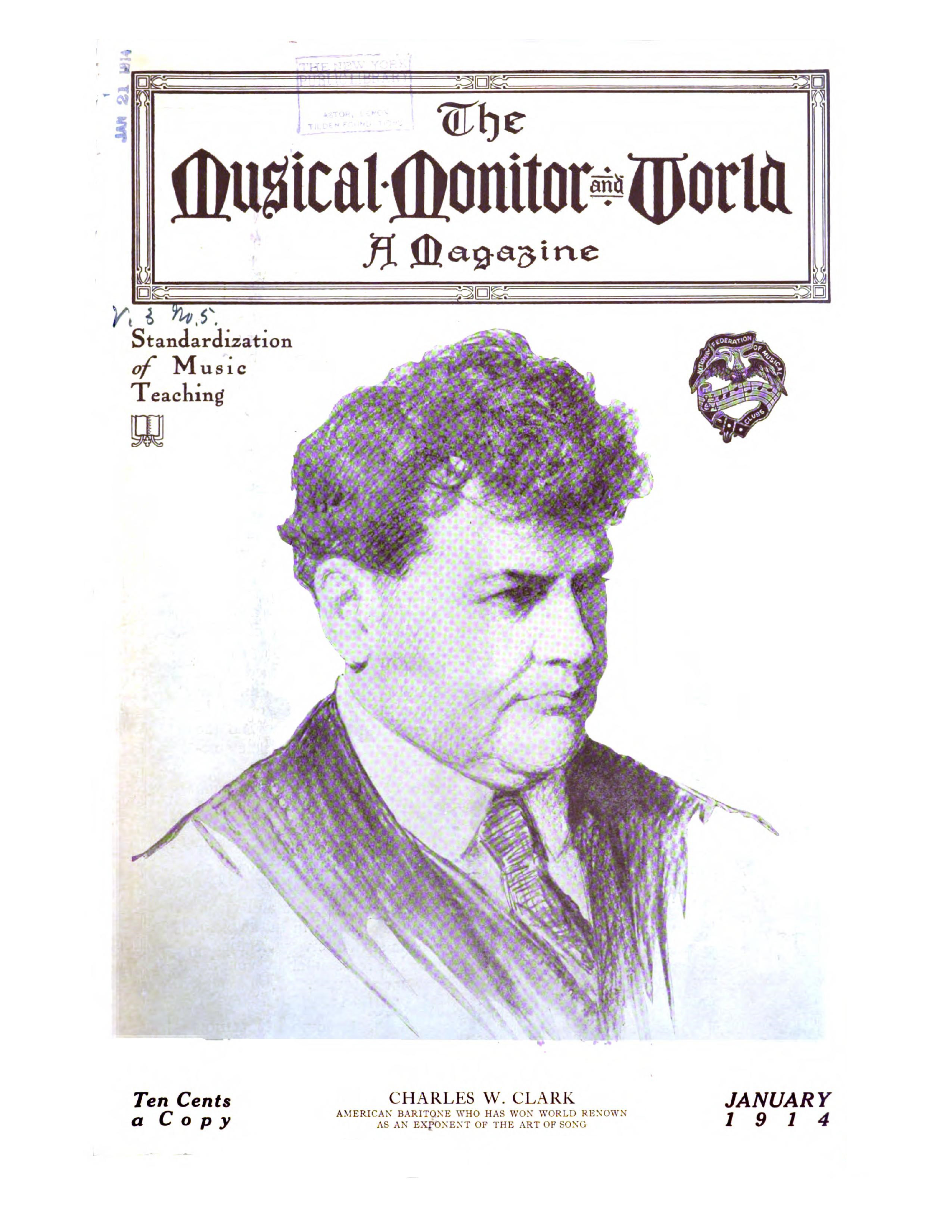 The Musical Monitor and World, magazine 1914 cover